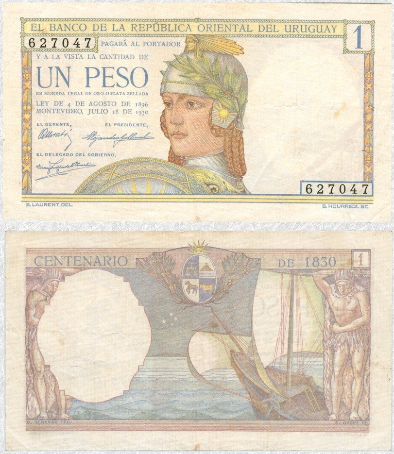 Uruguay 1 Peso (1896). This note was issued in 1930 to commemorate the centennial of Uruguayan independence from Spain.